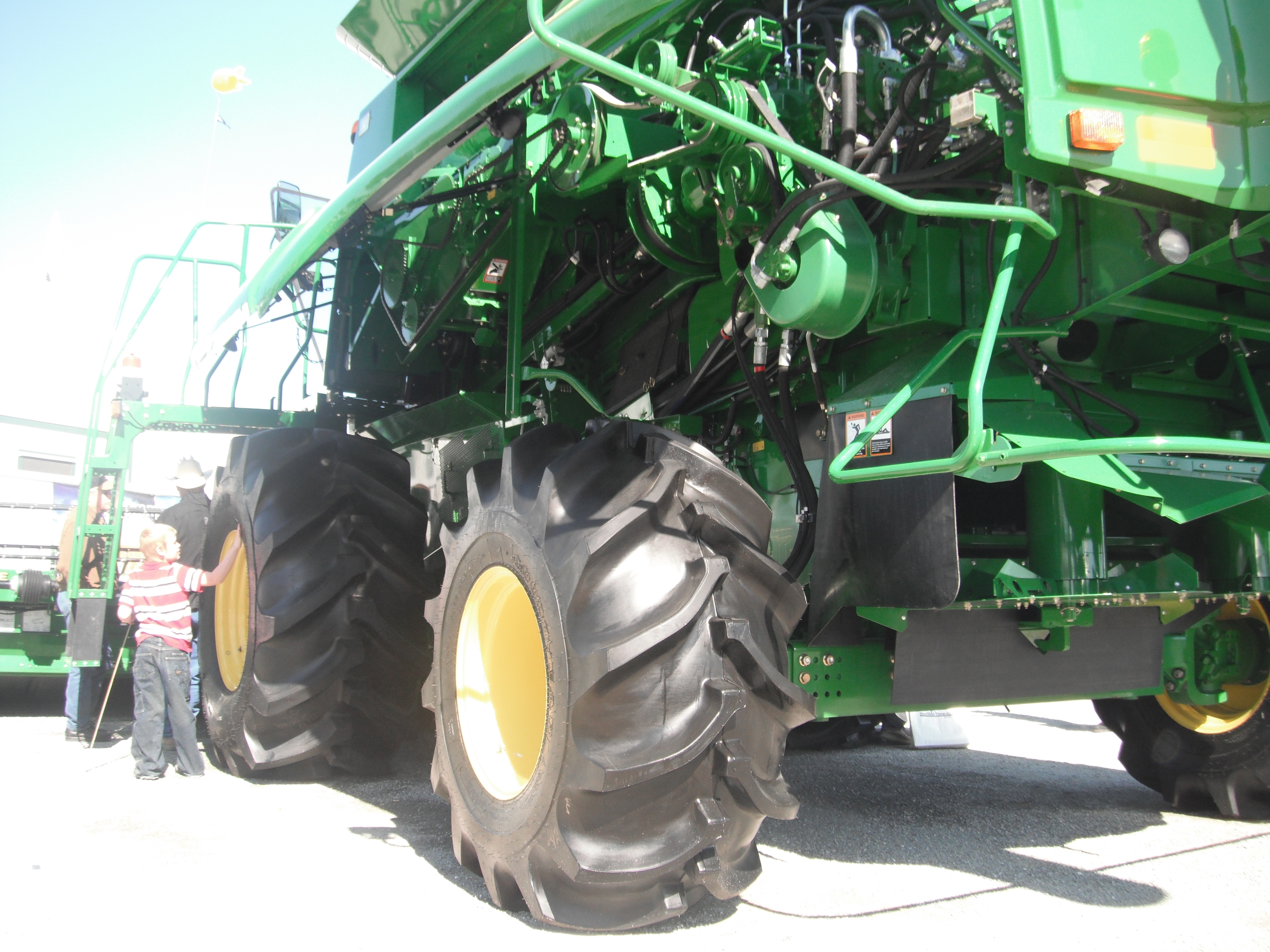 The underbelly of a John Deere 9870 STS combine harvester.